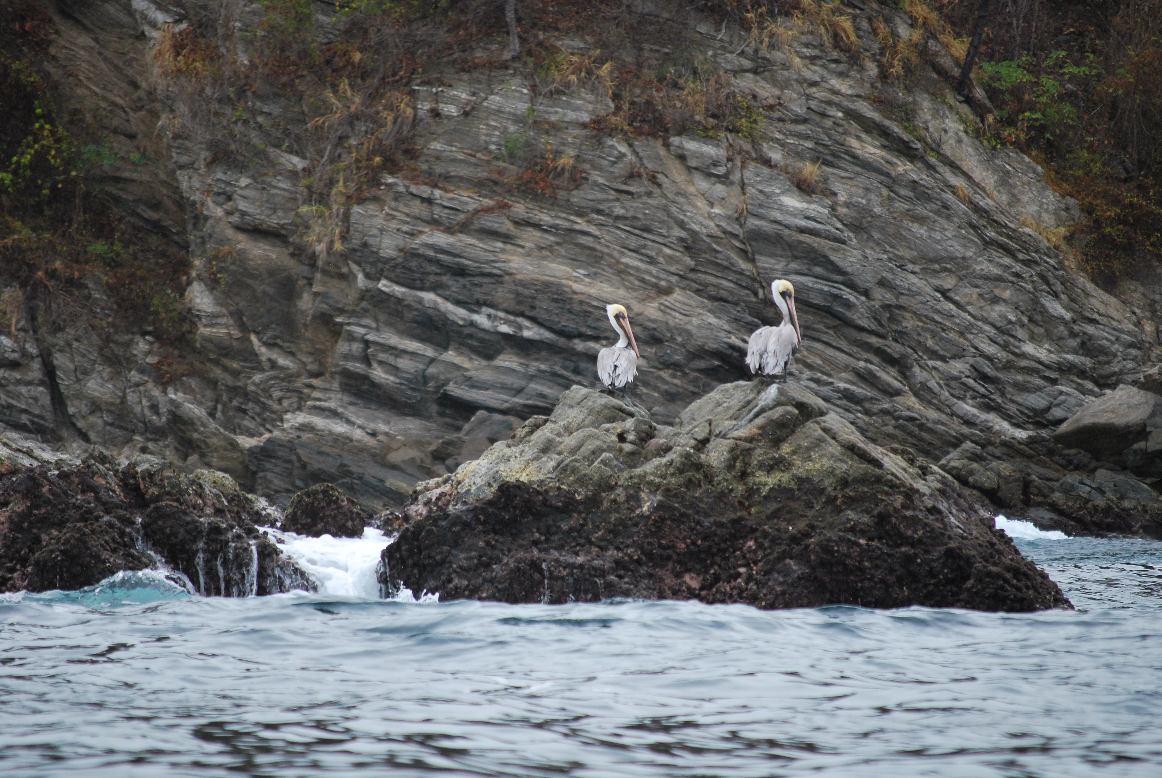 Two herons on a rock in the cove of Playa Boquilla, Oaxaca